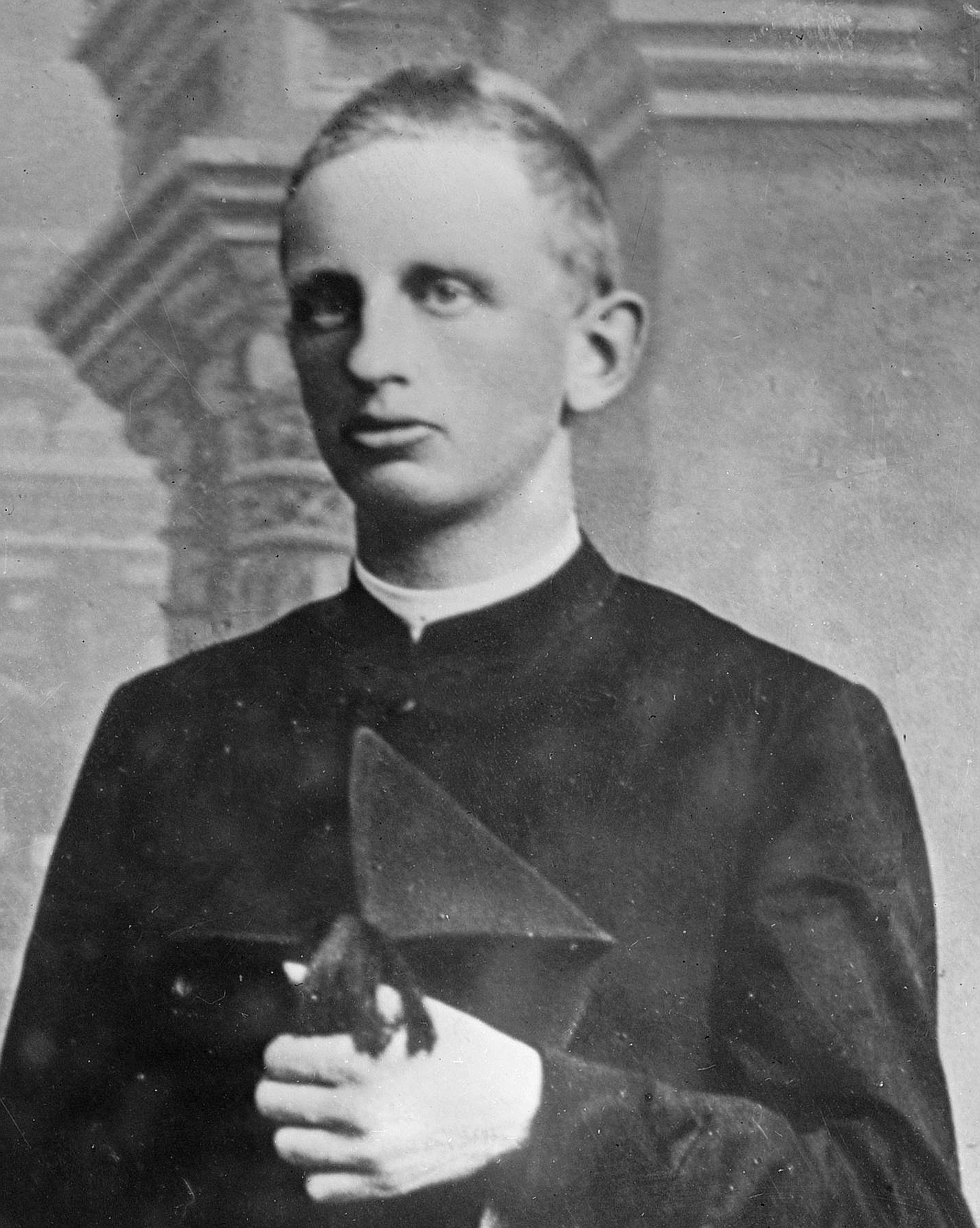 Title: Prince Max of Saxony Abstract/medium: 1 negative : glass ; 5 x 7 in. or smaller.